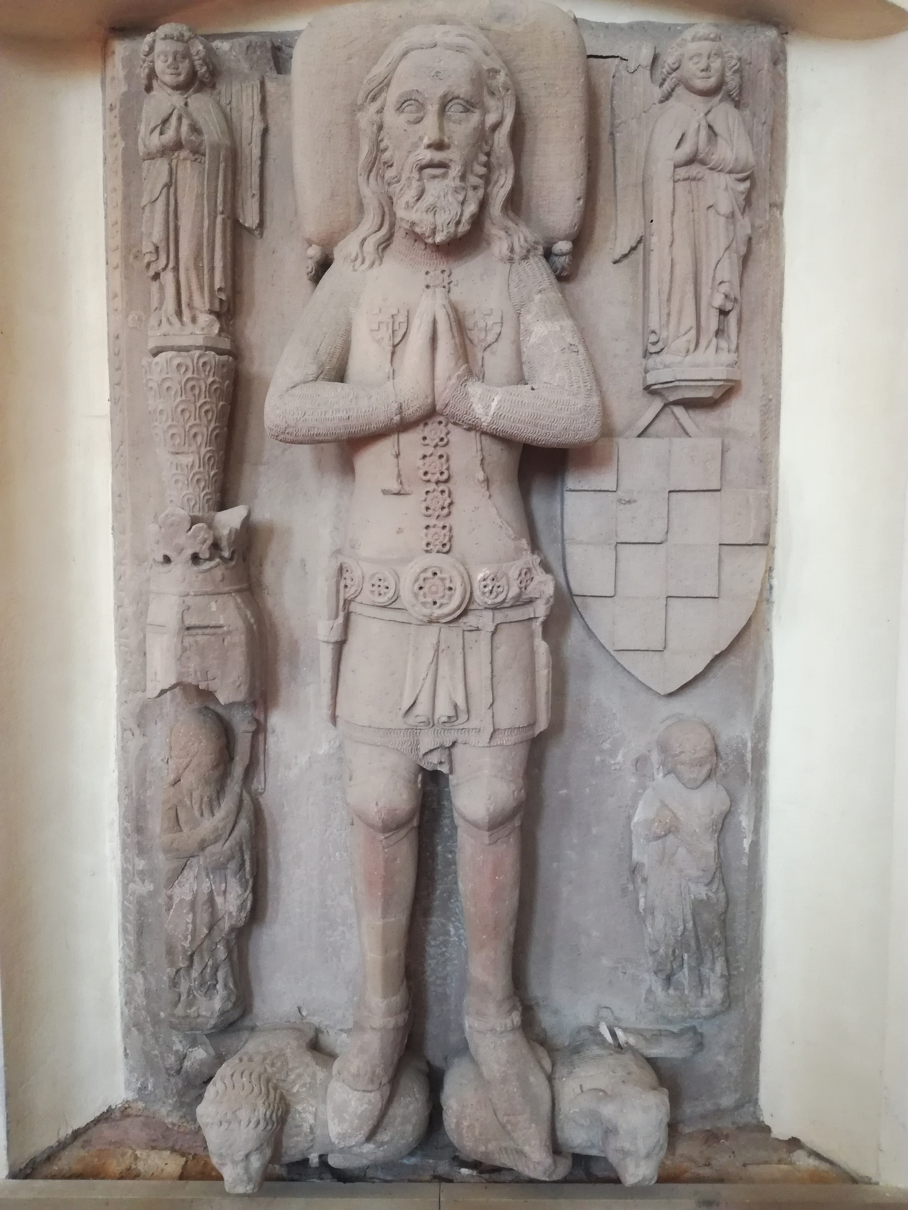 tomb cover with depiction of John II, Count of Sponheim-Kreuznach († 1380)